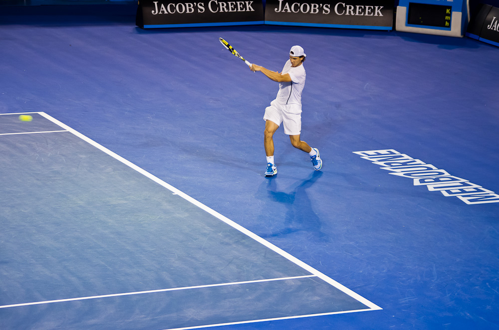 Experimenting with (and finding limitations of) budget Pentax 55-300mm f4-5.8 and K-5 for sports.